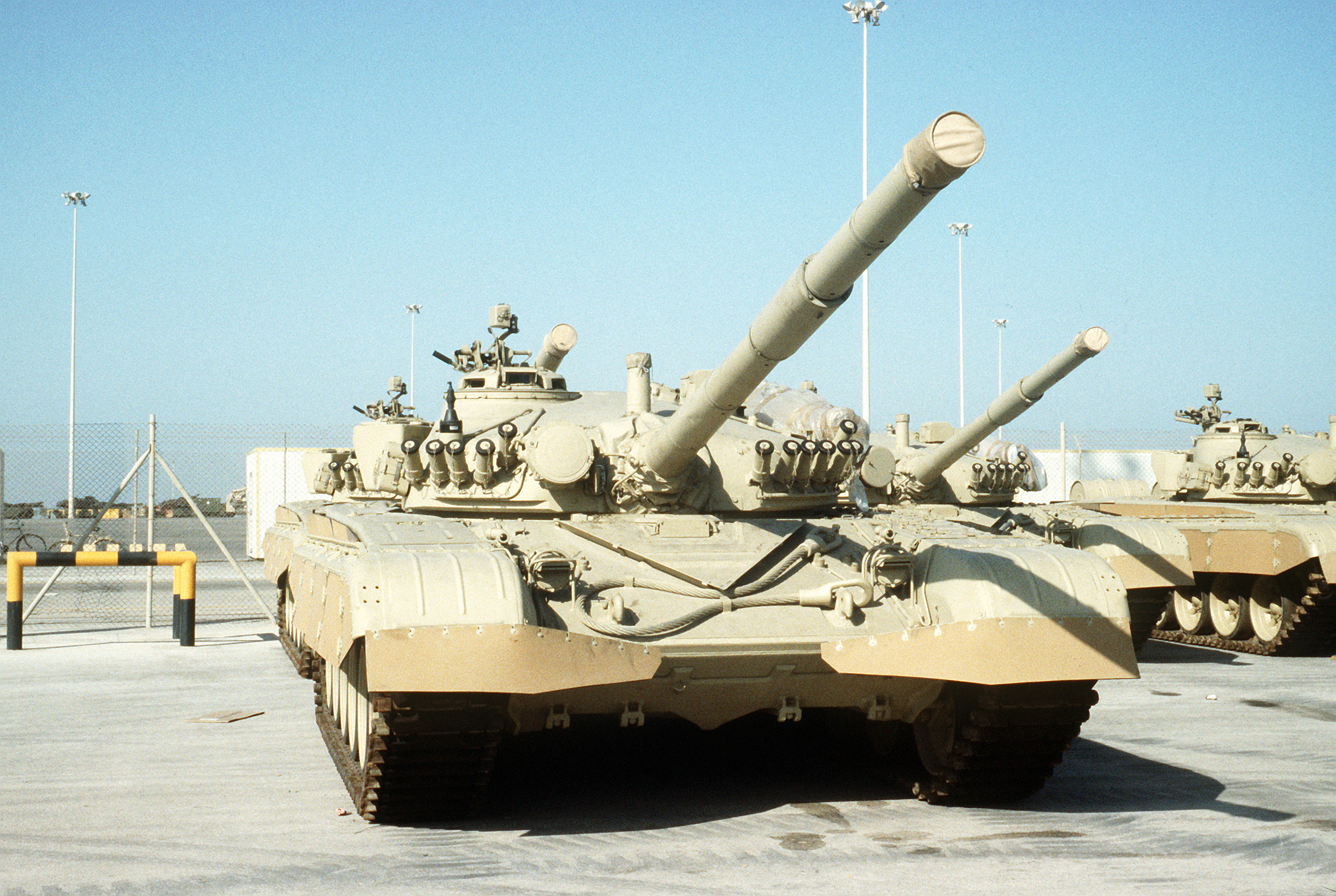 Kuwaiti M-84AB main battle tanks, made in Yugoslavia, are stored at a Saudi base during Operation Desert Shield until they can be returned after the liberation of Kuwait from Iraqi forces.